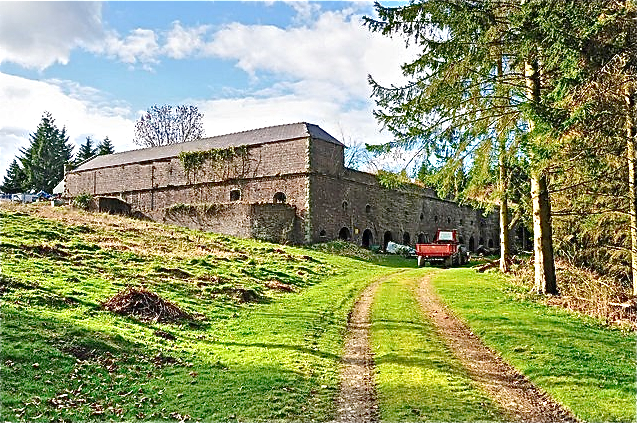 The Slurry Tank! Very hard to tell what this is from here but it is actually the smartest reservoir for manure slurry you are ever likely to see! It has cattle sheds adjacent on three sides. Set on Moel y Mab hilltop, the contents of the tank were distributed about the fields below by means of a gravity-fed pipe system.